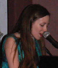 I shot this photograph of Noe Venable in 2007 and assign it to the public domain.